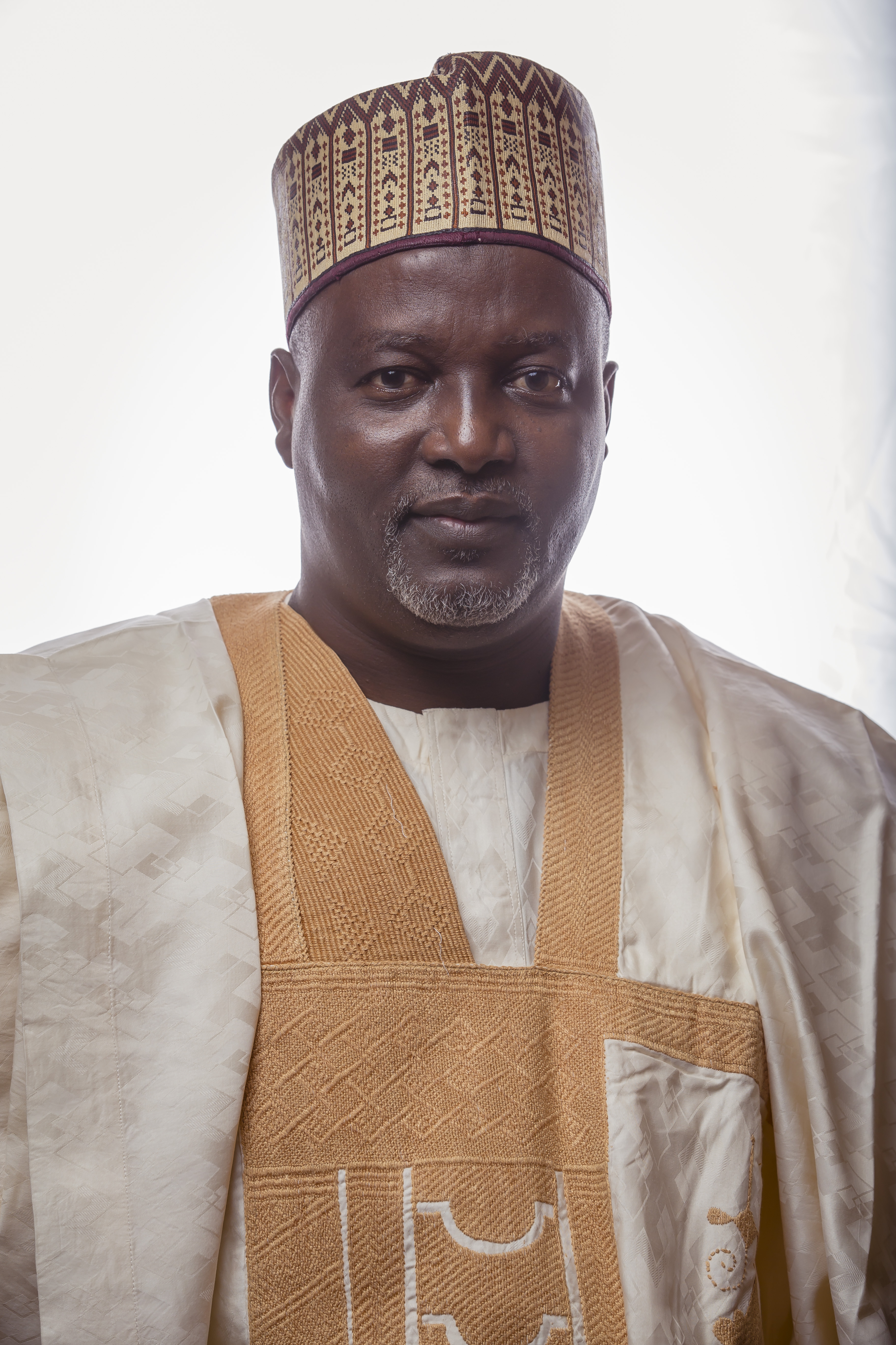 A Headshot photograph of Ahmed Idris Wase